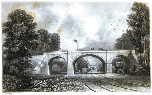 from Thomas Roscoe 1839 The Book of the Grand Junction Railway, a work now in the public domain.